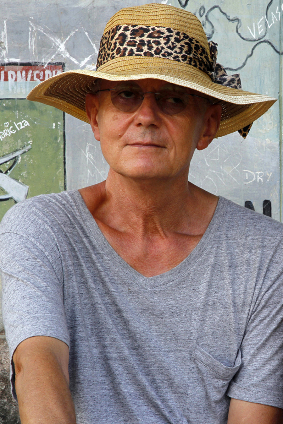 Herbert Brödl, making of 'Black River', Life on Rio Negro, Brazil, 2012